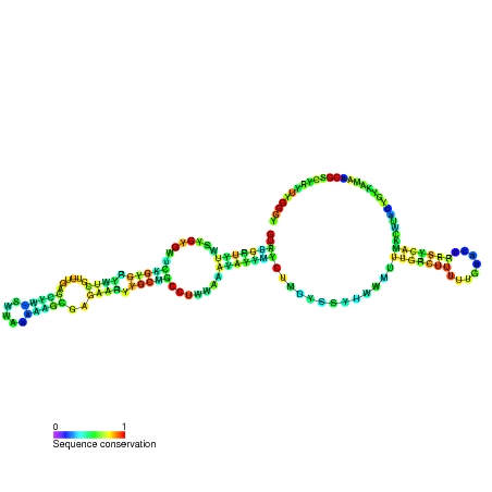 Secondary structure image for purD non coding RNA (RF01069). Nucleotide colouring indicates sequence conservation between the members of this family.